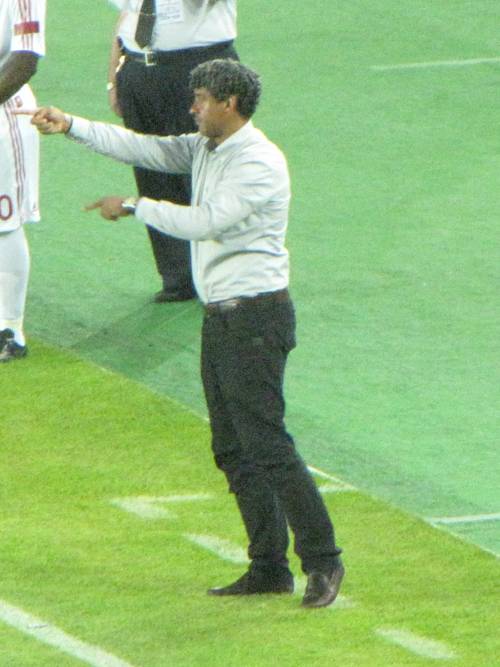 Galatasaray-Tobol European Cup 23.07.2009